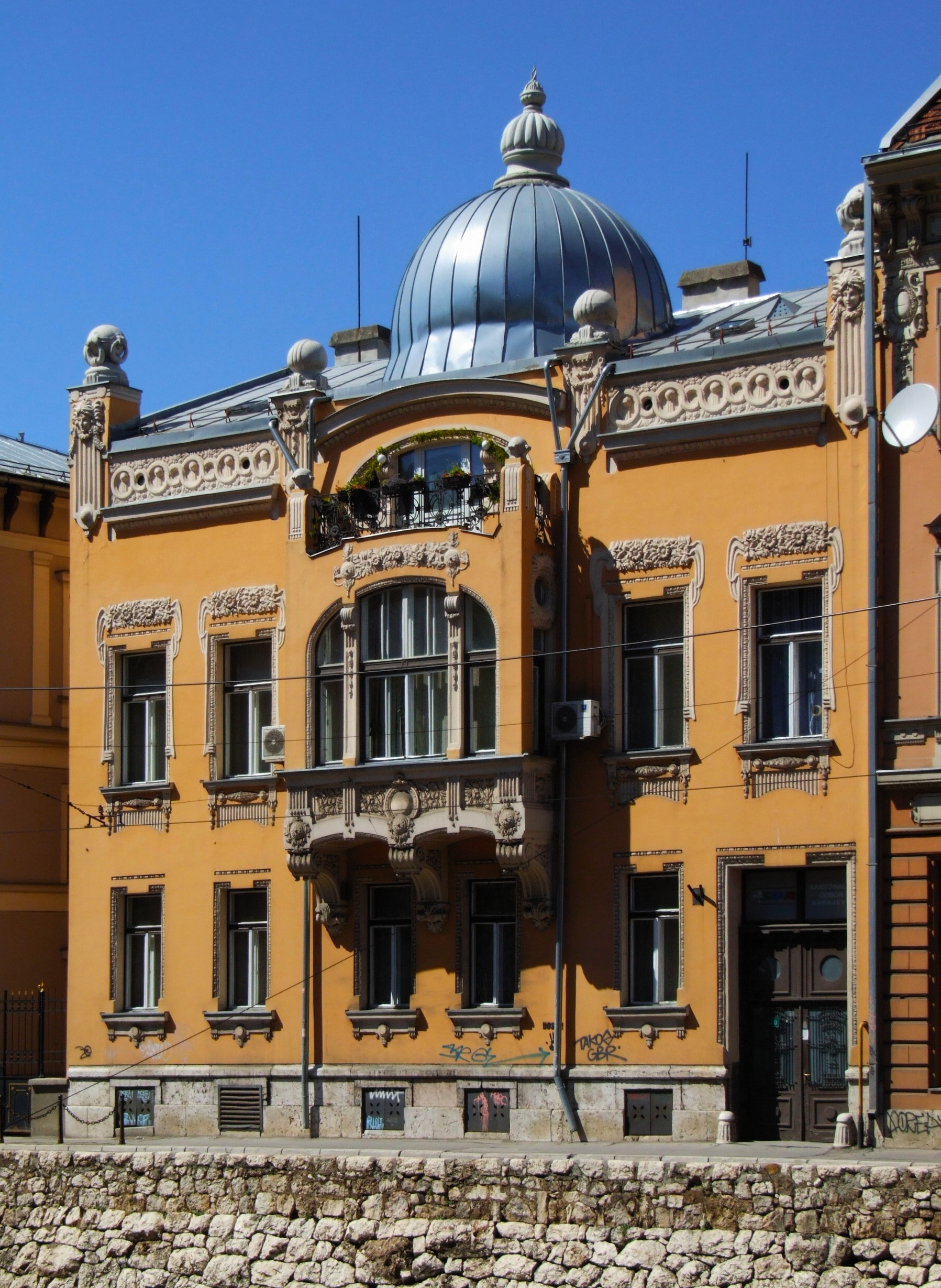 House of Ješua D. Salom by Josip Vancaš (later seat of the Society of BH Ingeneers and Technicians), Sarajevo, BiH